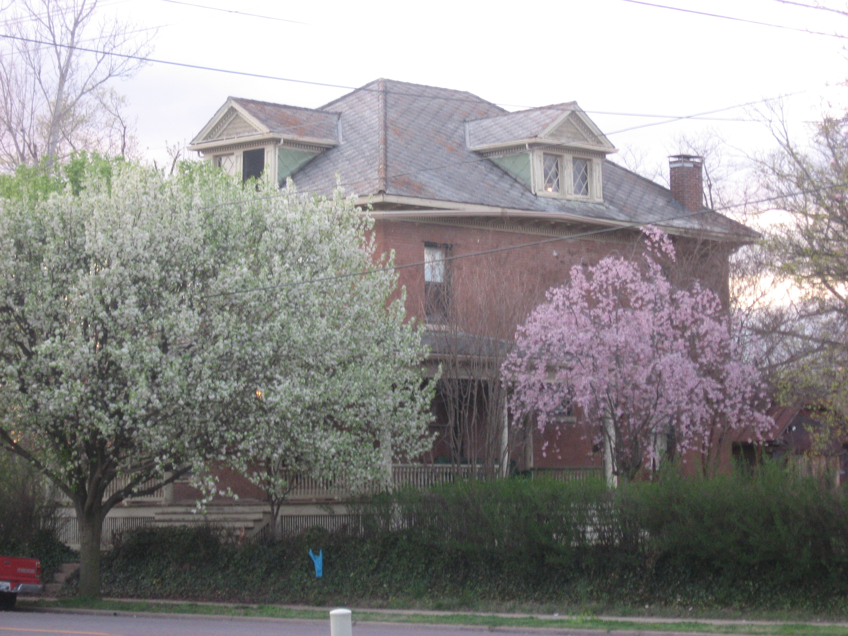 Front and eastern side of the Robert Felix and Elma Taylor Wichterich House, located at 300 Good Hope Street in Cape Girardeau, Missouri, United States. Built in 1906, it is listed on the National Register of Historic Places, and it is part of a Register-listed historic district, the Courthouse-Seminary Neighborhood Historic District.